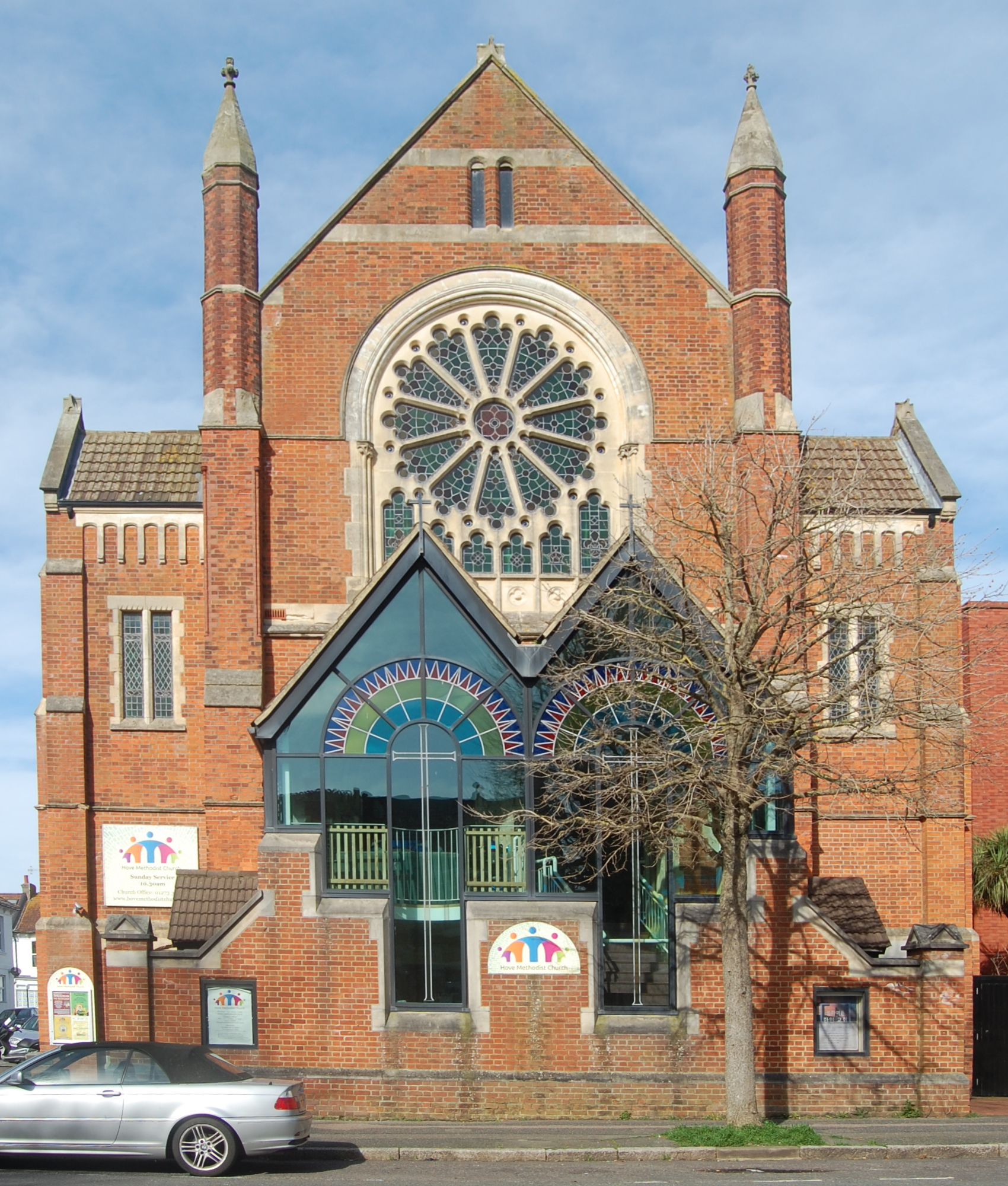 Hove Methodist Church, Portland Road, Hove, City of Brighton and Hove, England. Built in 1895 to the design of John Wills.